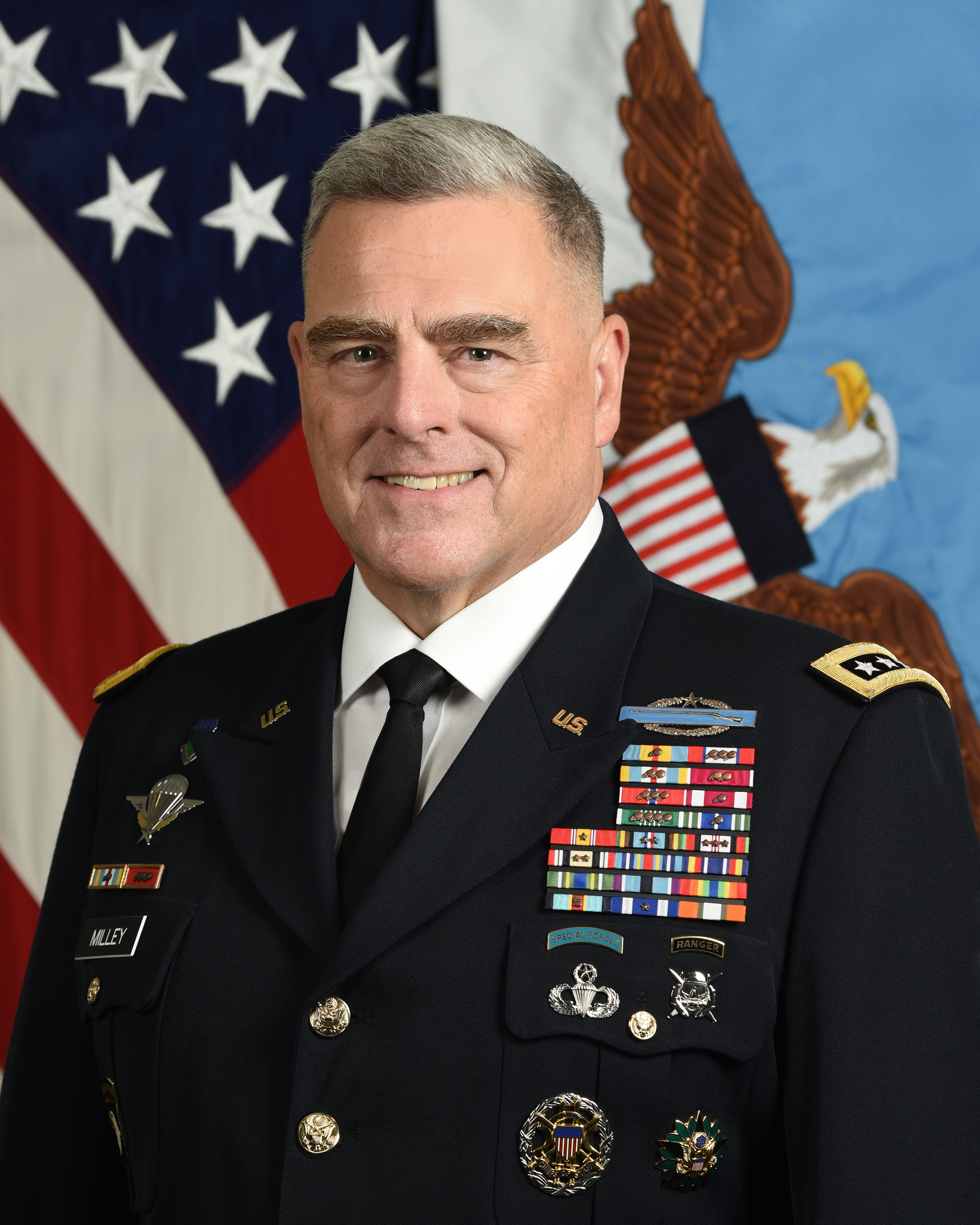 United States Army General Mark A. Milley, 20th Chairman of the Joint Chiefs of Staff, poses for a command portrait in the Army portrait studio at the Pentagon in Arlington, Va., Sept. 26, 2019.